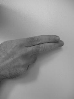 Korean manual alphabet yeo